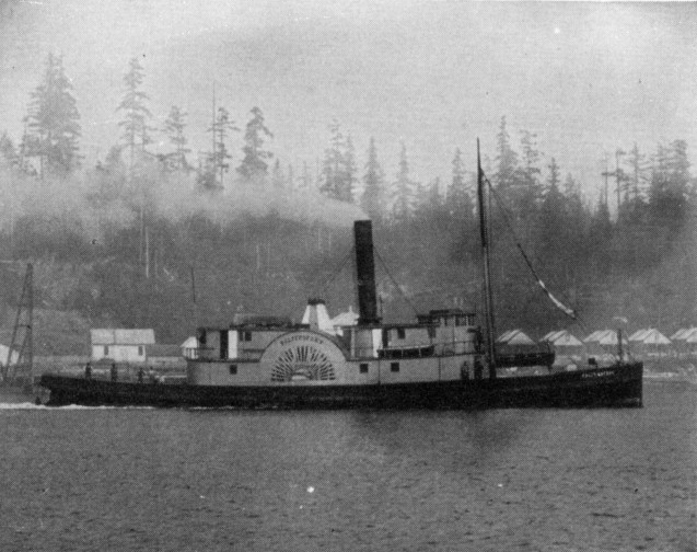 Sidewheeler Politkofsky, long-running steamer in Alaska, British Columbia and Washington State.